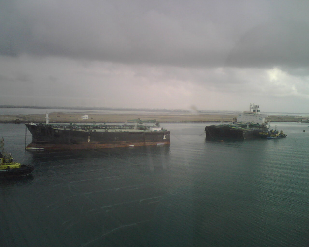 The tanker Elli after her bow and and stern were separated at Aden on February 7, 2010.